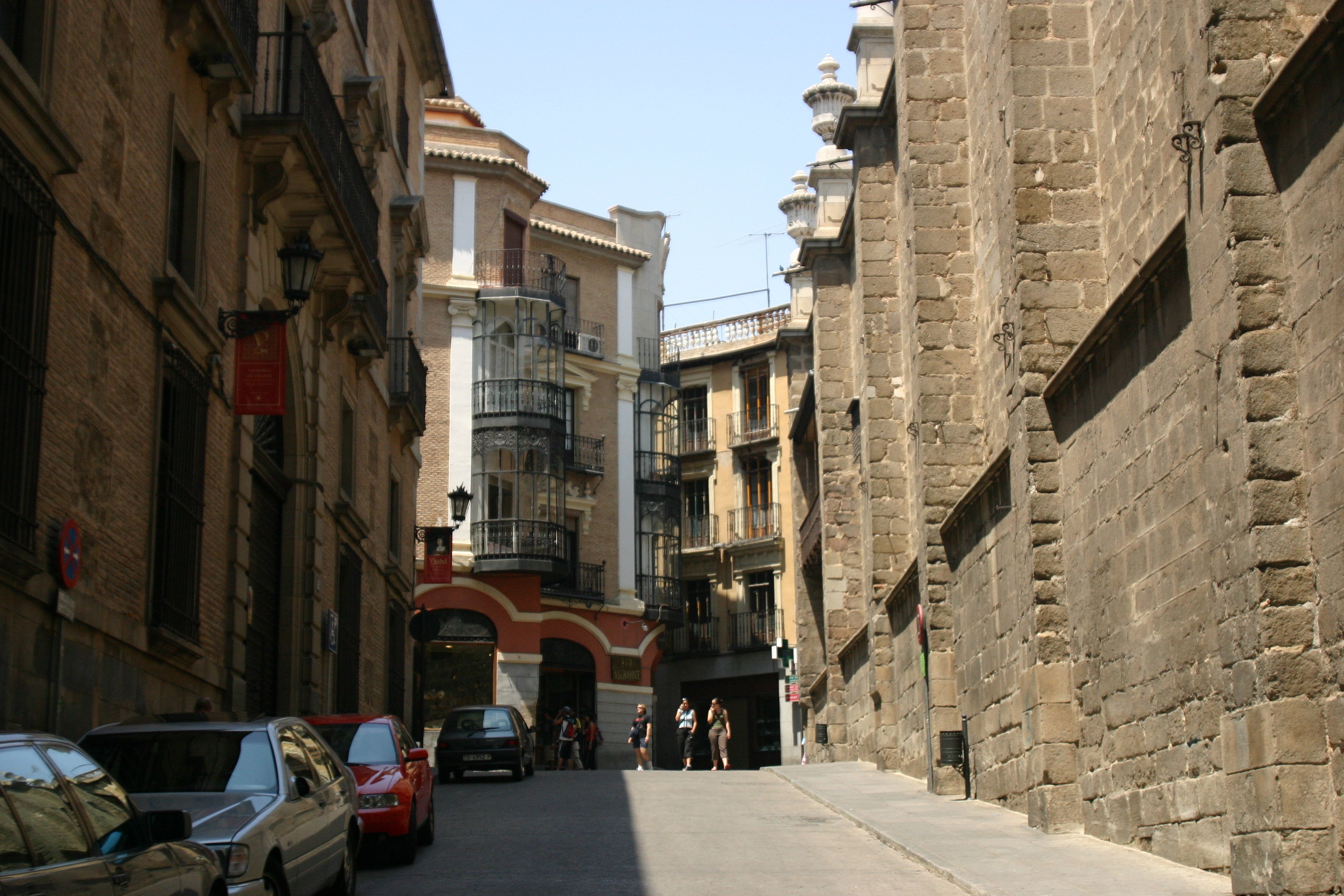 A winding Toledan Street